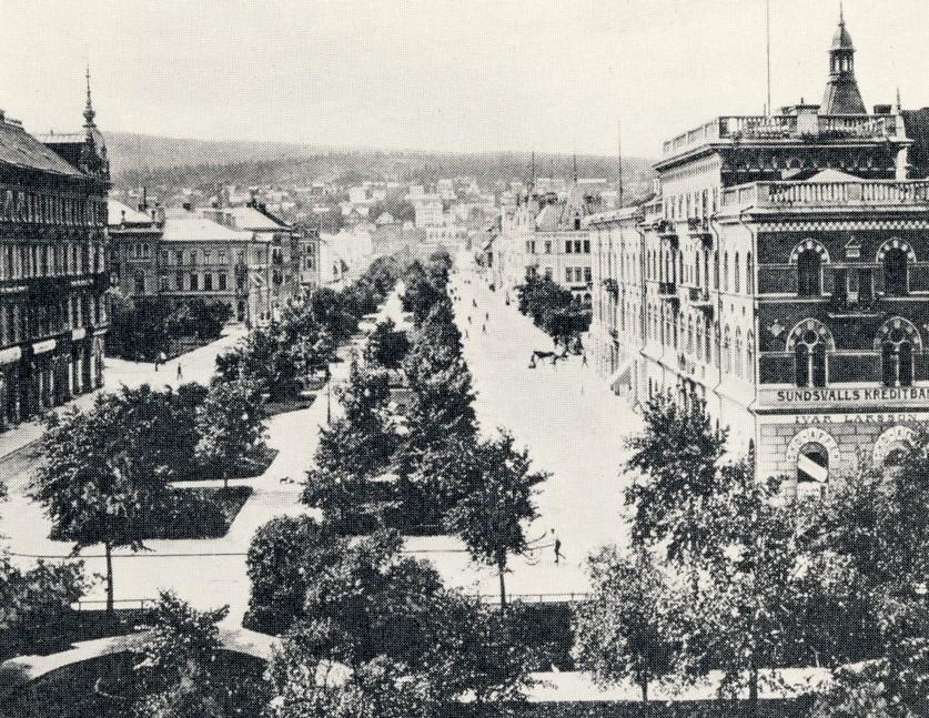 Sundsvall after the fire 1888